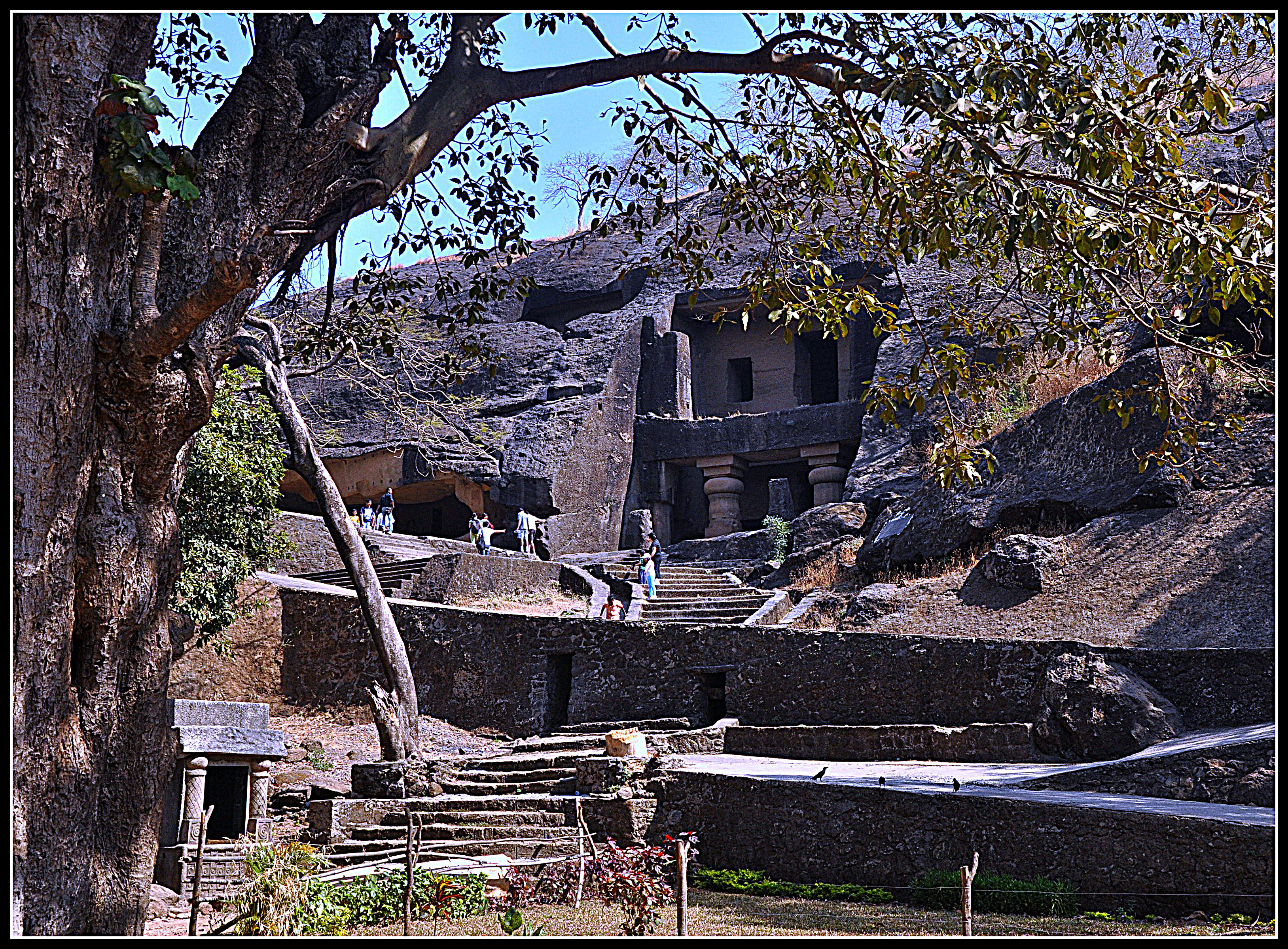 SIGHT AT ENTRY ON THE HILL.